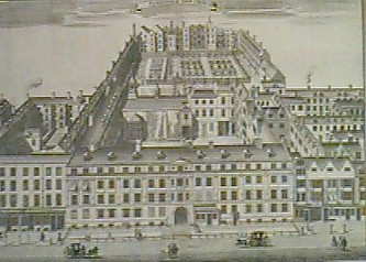 An early 18th century published engraving of Furnival's Inn, London